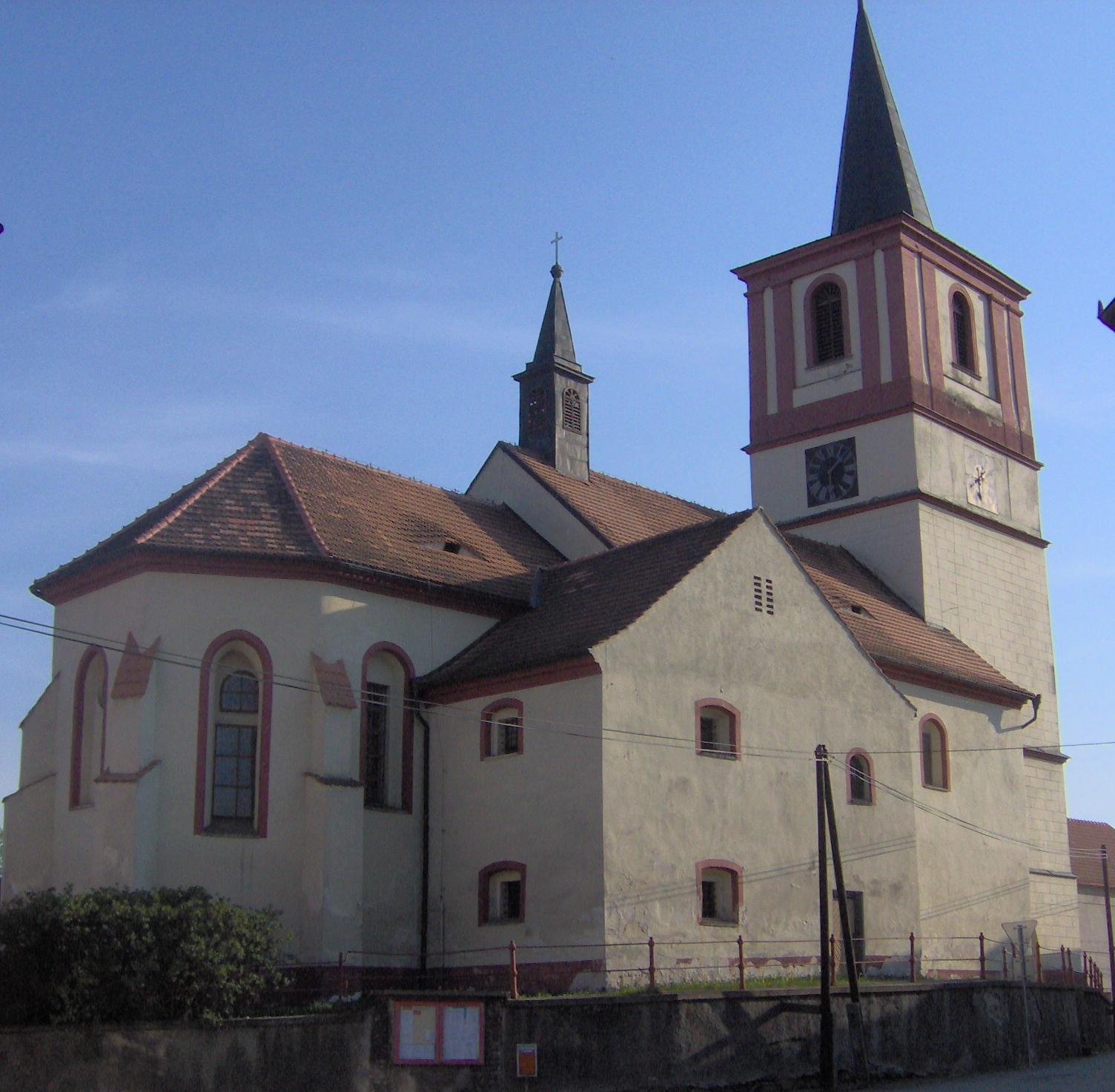 Church of saint Peter and Paul in Volenice, Strakonice District, Czech republic